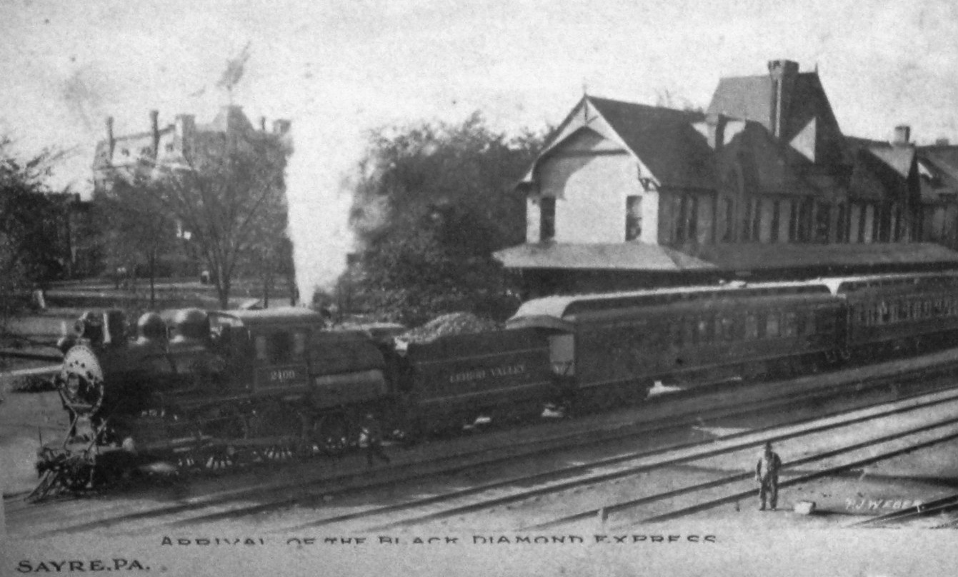 Postcard photo of the Lehigh Valley Railroad's Black Diamond Express at Sayre, Pa.